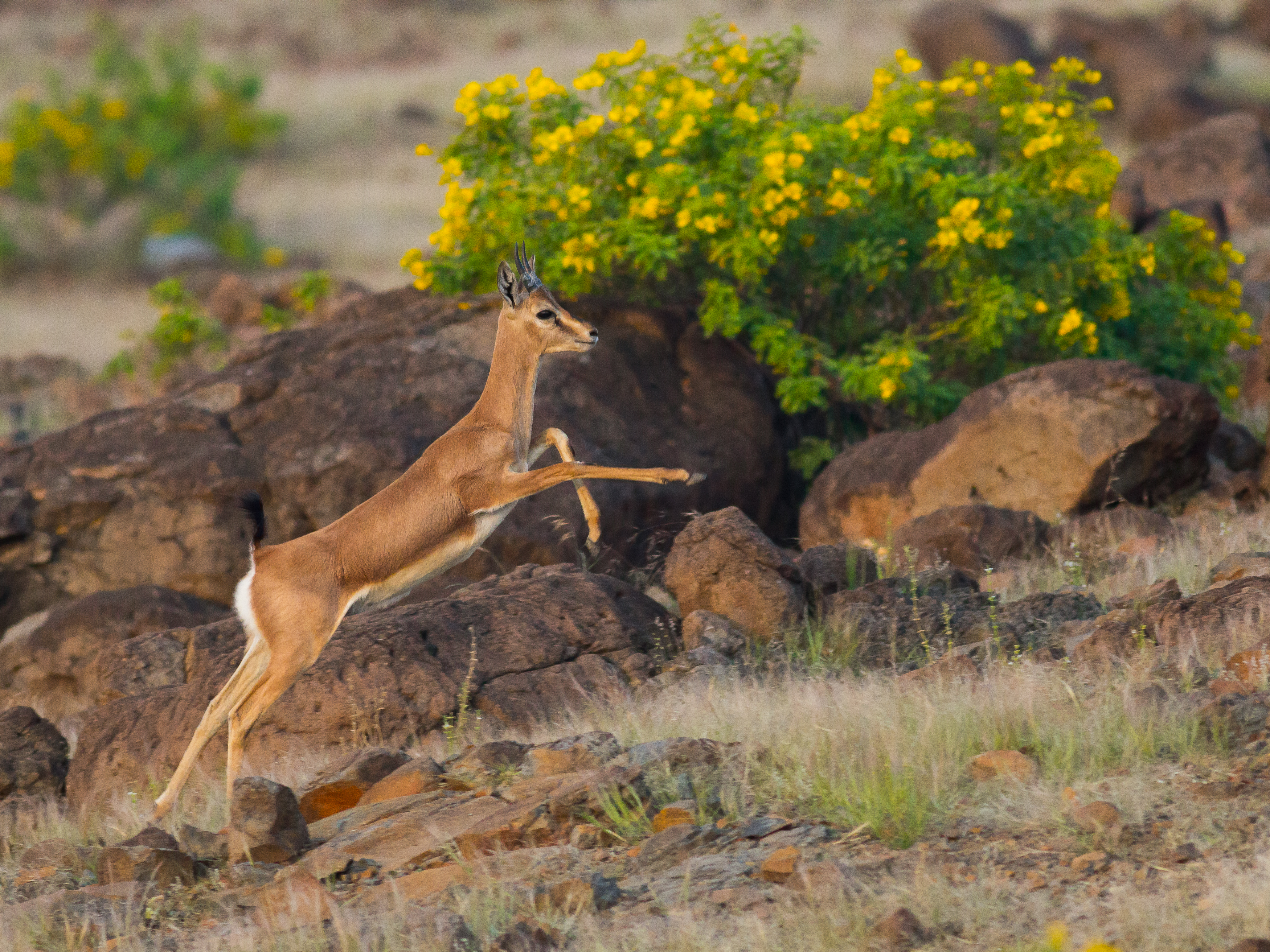 Clicked at Saswad, Maharashtra